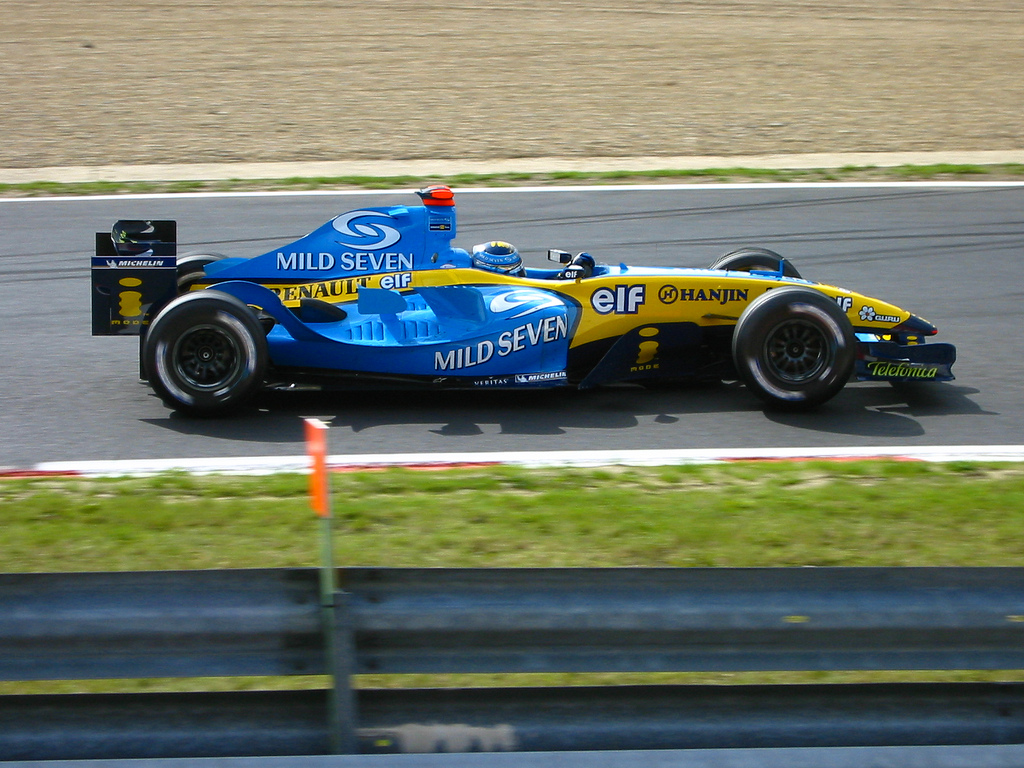 Jarno Trulli driving for Renault F1 at the 2004 Belgian Grand Prix.